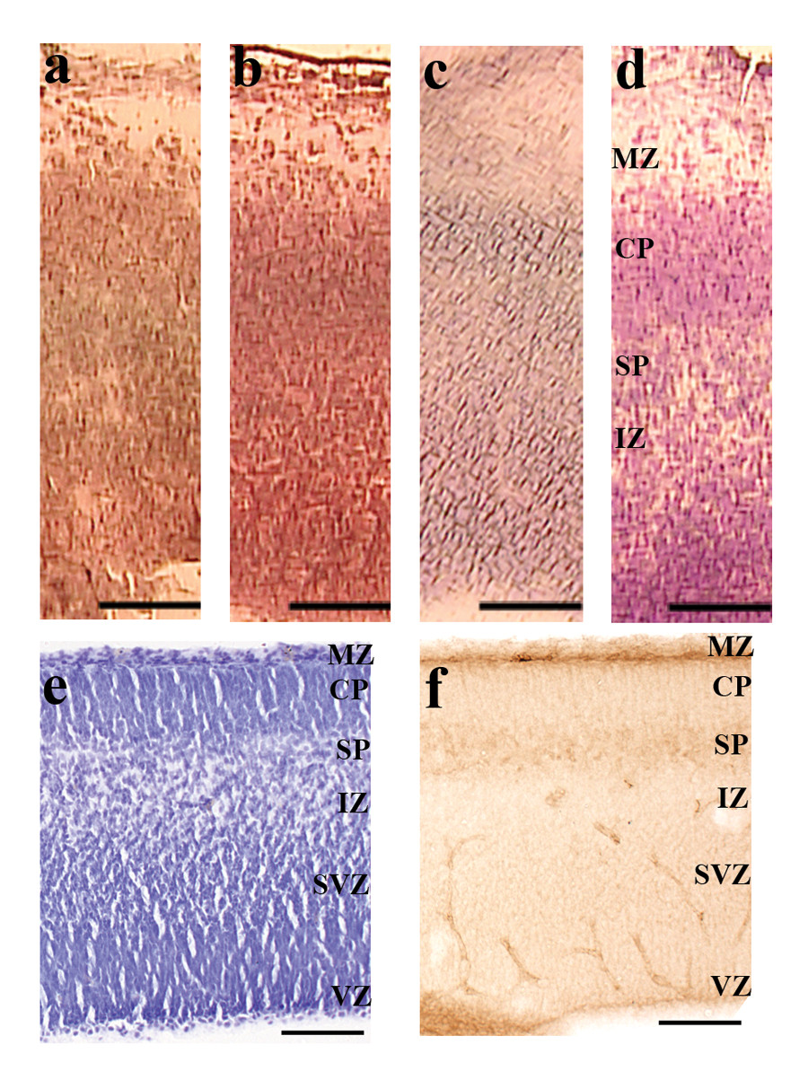 Comparison of four staining methods. Images were taken directly on the PALM Microbeam to demonstrate the staining and image quality available to identify the different cell populations. a. Hematoxylin. b. Hematoxylin and Eosin. c. 0.1% cresyl violet in H2O. d. 1% cresyl violet in H2O. For hematoxylin and H&E staining (a, b), sections were rinsed with 70% EtOH and H2O, stained with Mayer's hematoxylin for 15 sec, rinsed with H2O and 70% EtOH and stained with Accustain Eosin Y for 10 sec (for H&E only). For cresyl violet staining (c, d), sections were rehydrated in decreasing concentrations of ethanol, stained in cresyl violet for 45 sec and dehydrated in increasing concentrations of ethanol. 1% cresyl violet (d) provided the best morphological details and allowed clear distinction between cortical plate and subplate. e, f. Localization of the subplate at E15. Depth and width of the subplate layer on cresyl violet stained sections (e) were confirmed with immunohistochemistry against Nurr1 (f). Scalebars: 100 μm. MZ = marginal zone, CP = cortical plate, SP = subplate, IZ = intermediate zone, SVZ = subventricular zone, VZ = ventricular zone. Mouse.